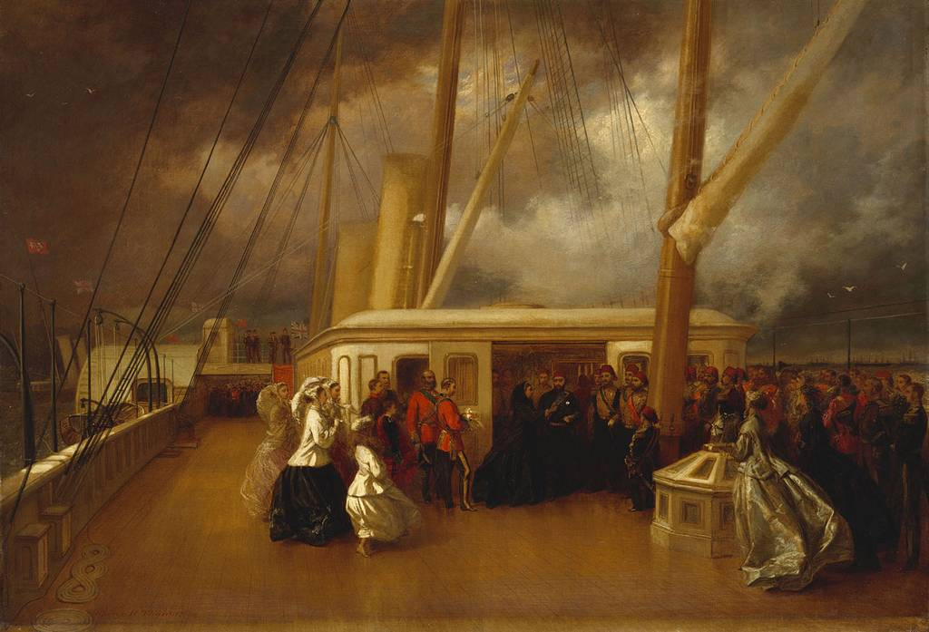 The ceremony took place on board the Royal Yacht Victoria and Albert during the naval review, held in appalling weather, in honour of the Sultan Abd-ul-Aziz who had succeeded his brother Abd-ul-Mejid as Sultan in 1861. The Sultan was, in the Queen’s words ‘very uncomfortable’ at sea and ‘was continually retiring below’. The Queen noted that the Sultan received the Garter ‘which he had very much set his heart upon, though I should have preferred the Star of India’. In the painting the Queen is investing the Sultan with the insignia of the Order. Behind her on the left stand the Prince of Wales, the Duke of Cambridge, Prince Arthur, Prince Leopold, Prince Louis of Hesse and Princess Beatrice, with three Ladies in Waiting. The Sultan’s little son stands near him. Signed: George H. Thomas. Inscribed on the back with the name of the artist and the subject.